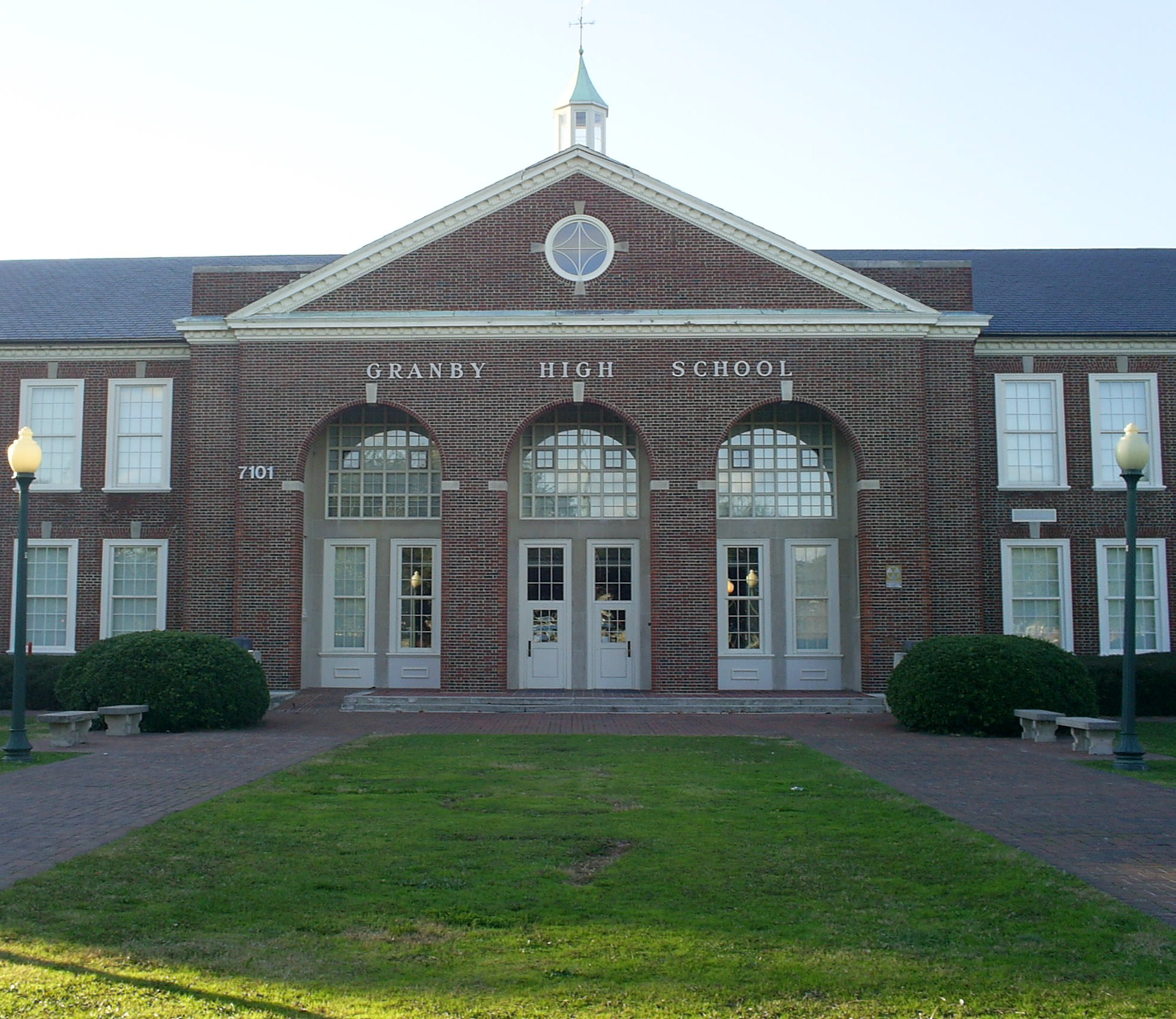 Picture of Granby High School in Norfolk, Virginia